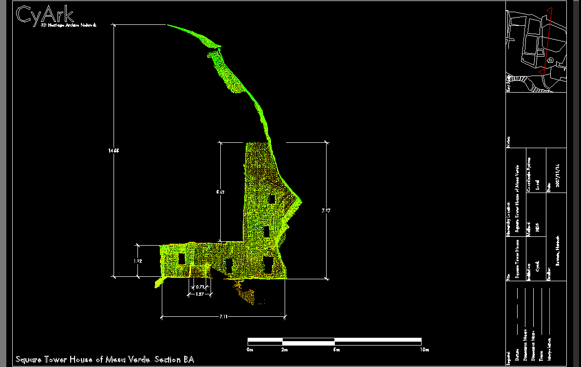 Laser scan section of the four-story Square Tower House. The sandstone masonry tower for which the Square Tower House site is named rises a slender four stories tall to 26 feet (8 meters), marking the center of the site plan in a visually striking manner that distinguishes the Square Tower as the Park's tallest standing structure. This tower is one of the last remnants of what was a multistory cliff dwelling complex. Many other stone structures rising around it collapsed long ago, though several two- and three-story buildings remain in this particular area.